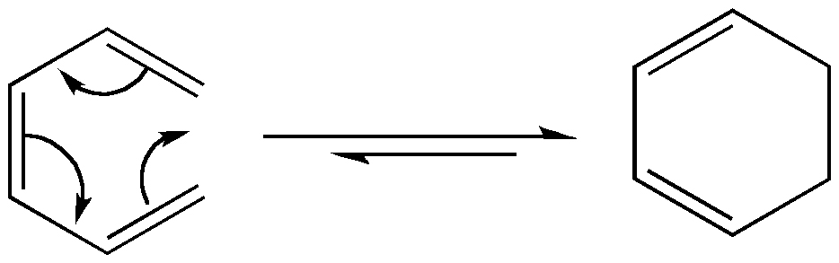 Diagram of a representative electrocyclic reaction.